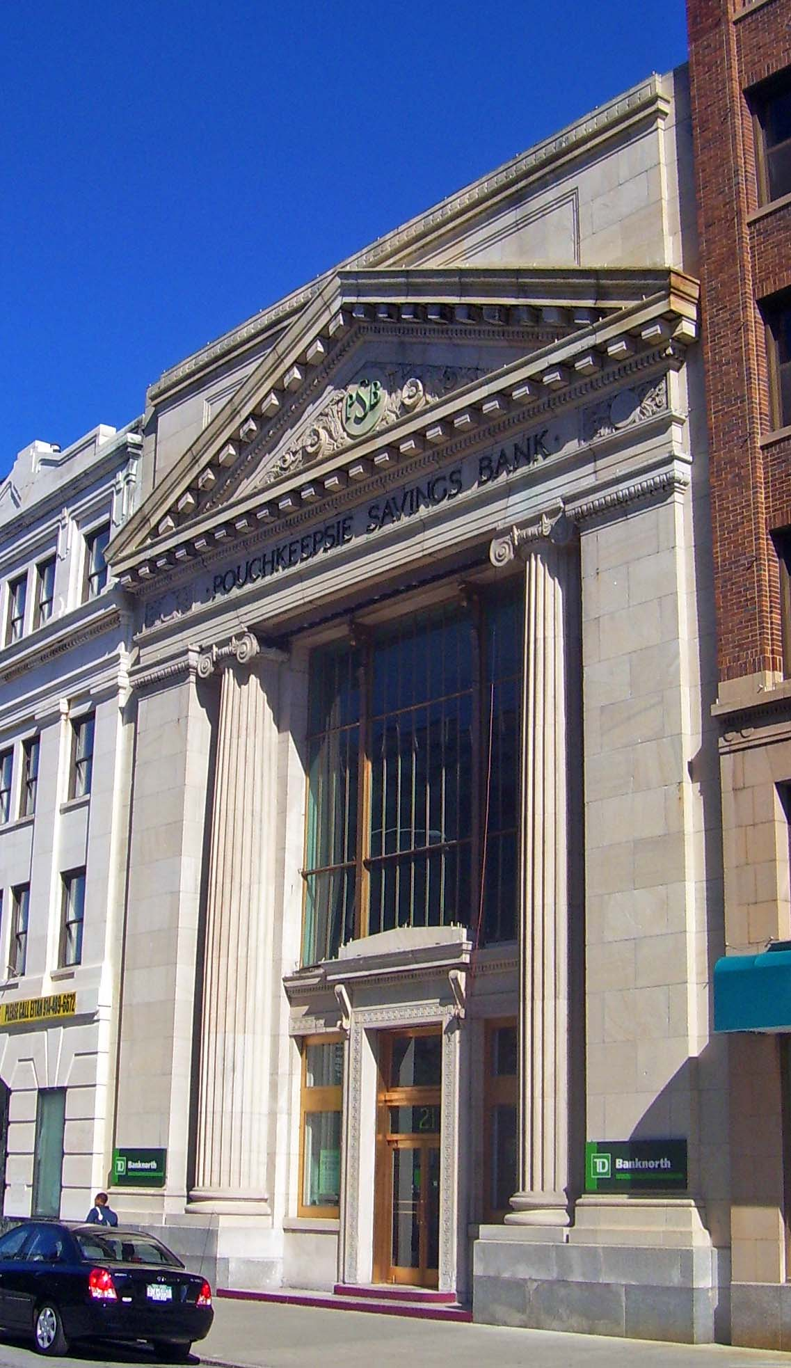 Poughkeepsie Savings Bank building in Poughkeepsie, NY, USA, home at the time to a branch of TD Banknorth (it has since closed)